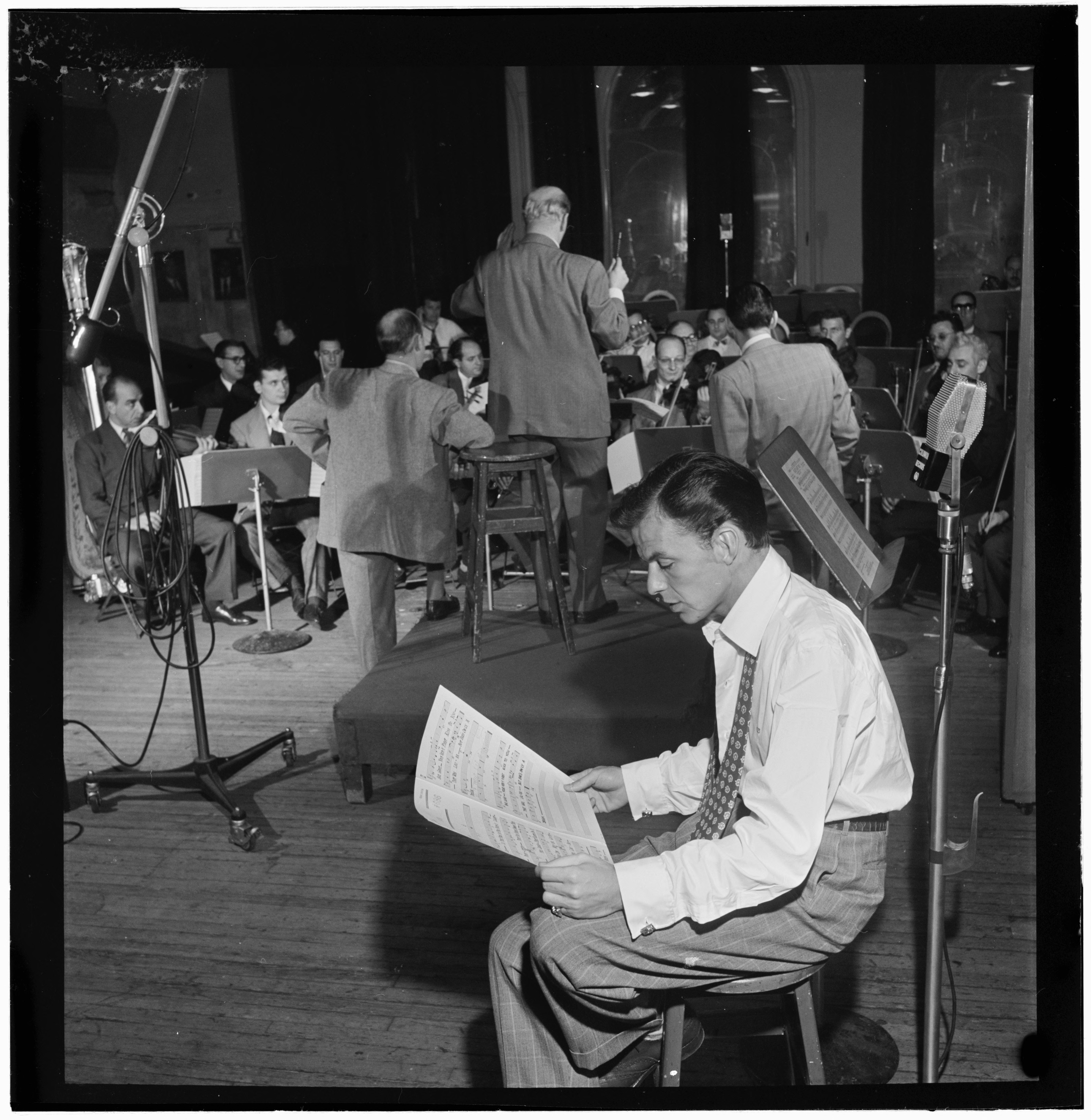 Gottlieb, William P., 1917-, photographer. [Portrait of Frank Sinatra and Axel Stordahl, Liederkrantz Hall, New York, N.Y., ca. 1947] 1 negative : b&w ; 2 1/4 x 2 1/4 in. Notes: Gottlieb Collection Assignment No. 455 Reference print available in Music Division, Library of Congress. Purchase William P. Gottlieb Forms part of: William P. Gottlieb Collection (Library of Congress). Subjects: Sinatra, Frank, 1915- Stordahl, Axel Jazz musicians--1940-1950. Singers--1940-1950. Conductors (Music)--1940-1950. Liederkrantz Hall Format: Portrait photographs--1940-1950. Group portraits--1940-1950. Film negatives--1940-1950. Rights Info: Mr. Gottlieb has dedicated these works to the public domain, but rights of privacy and publicity may apply. Repository: (negative) Library of Congress, Prints & Photographs Division, Washington D.C. 20540 USA, (reference print) Library of Congress, Music Division, Washington D.C. 20540 USA, Part Of: William P. Gottlieb Collection (DLC) 99-401005 General information about the Gottlieb Collection is available at Persistent URL: Call Number: LC-GLB23- 0781 This work is from the William P. Gottlieb collection at the Library of Congress. Rights and restrictions.In accordance with the wishes of William Gottlieb, the photographs in this collection entered into the public domain on February 16, 2010.